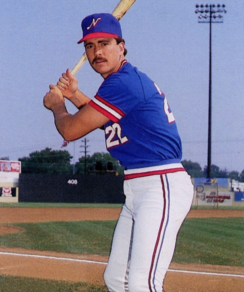 Outfielder Brian Harper of the 1986 Nashville Sounds Minor League Baseball team of the American Association